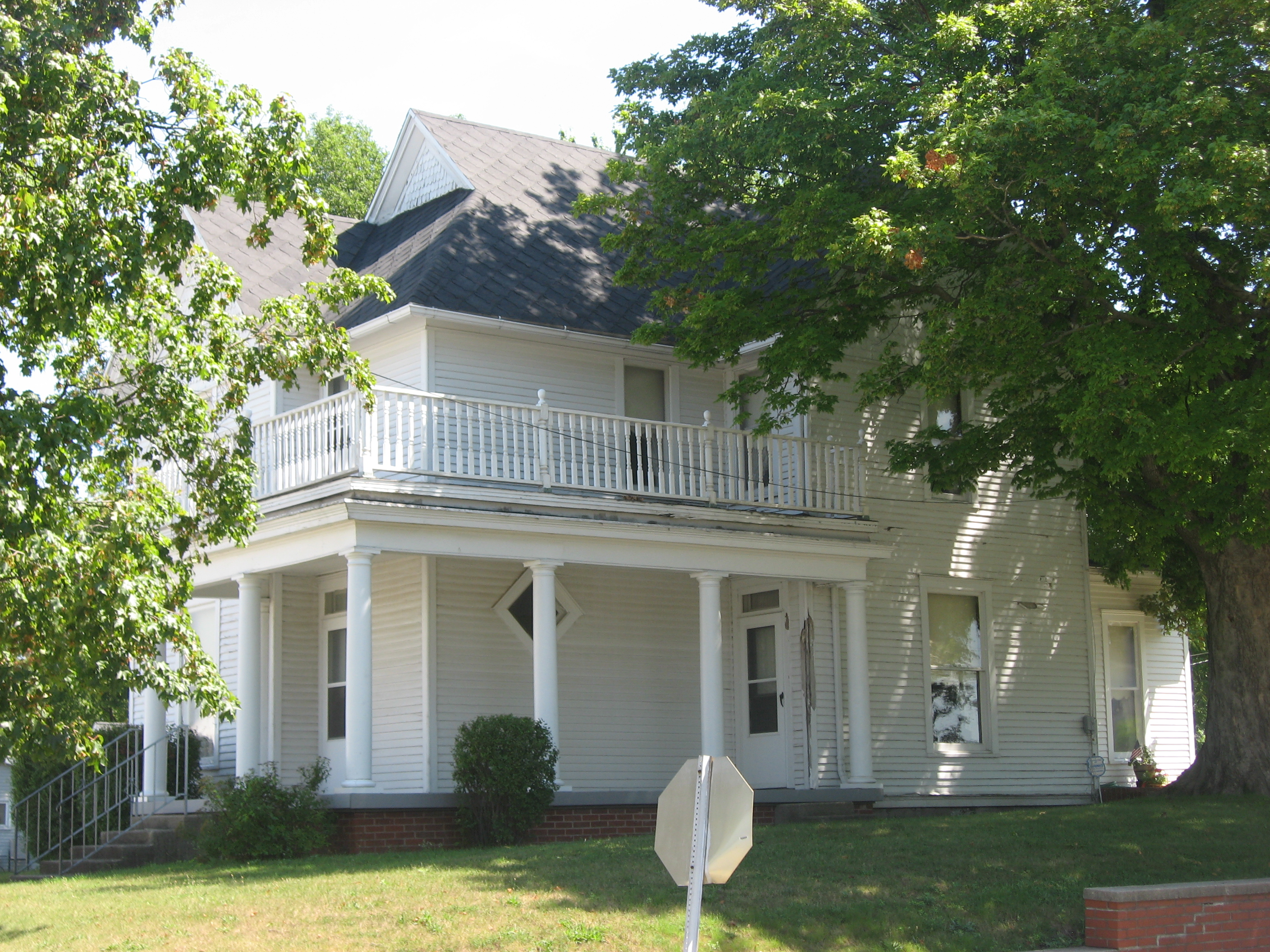 Front and southern side of the Joseph & Lucinda Thawley House, located at 300 E. North Main Street in Summitville, Indiana, United States. Built in 1895, it is listed on the National Register of Historic Places.